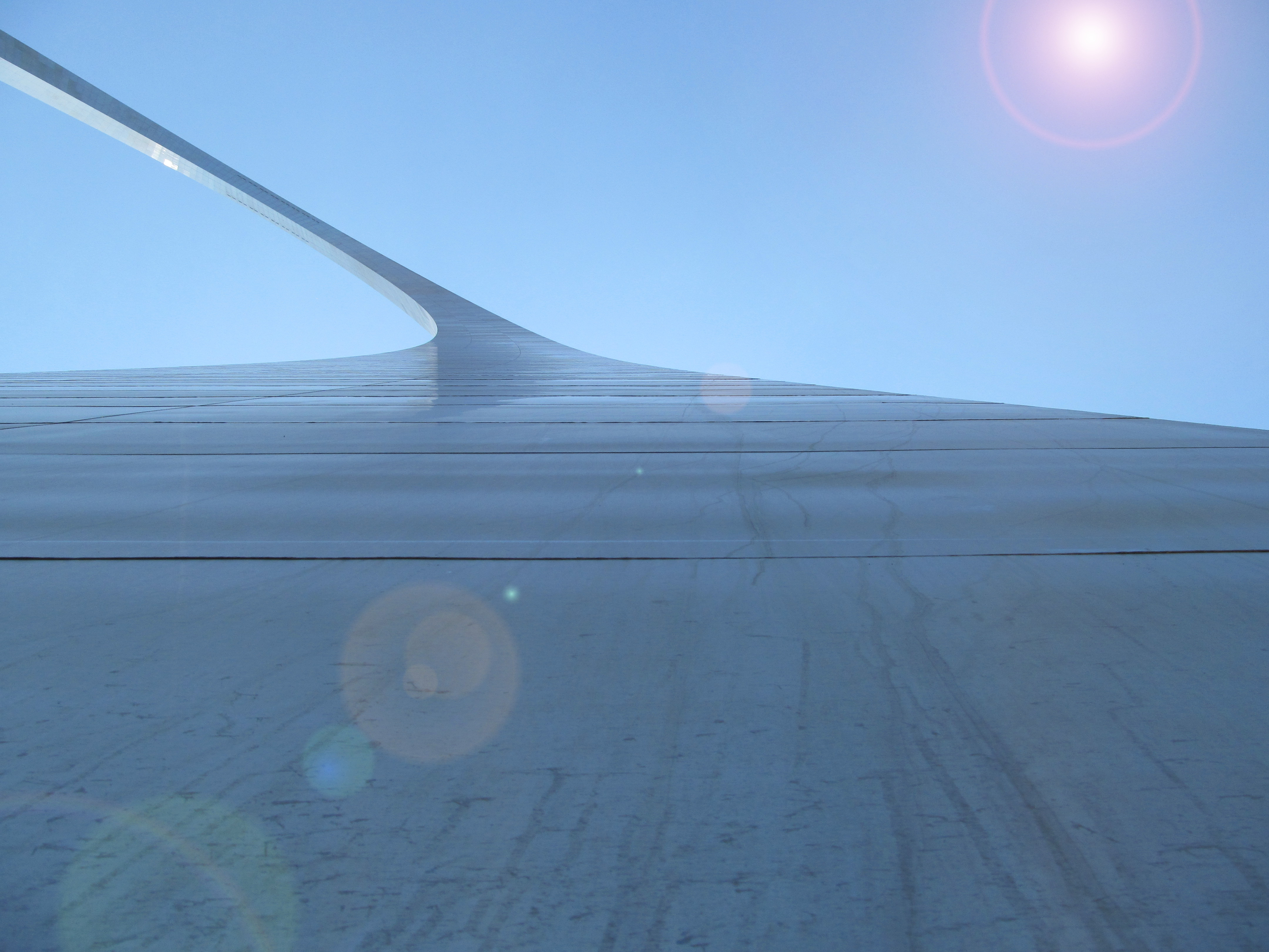 Photo of the arch from the bottom of the southern leg.